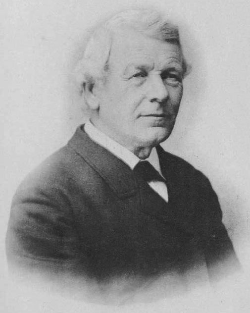 Swiss climber August Raillard